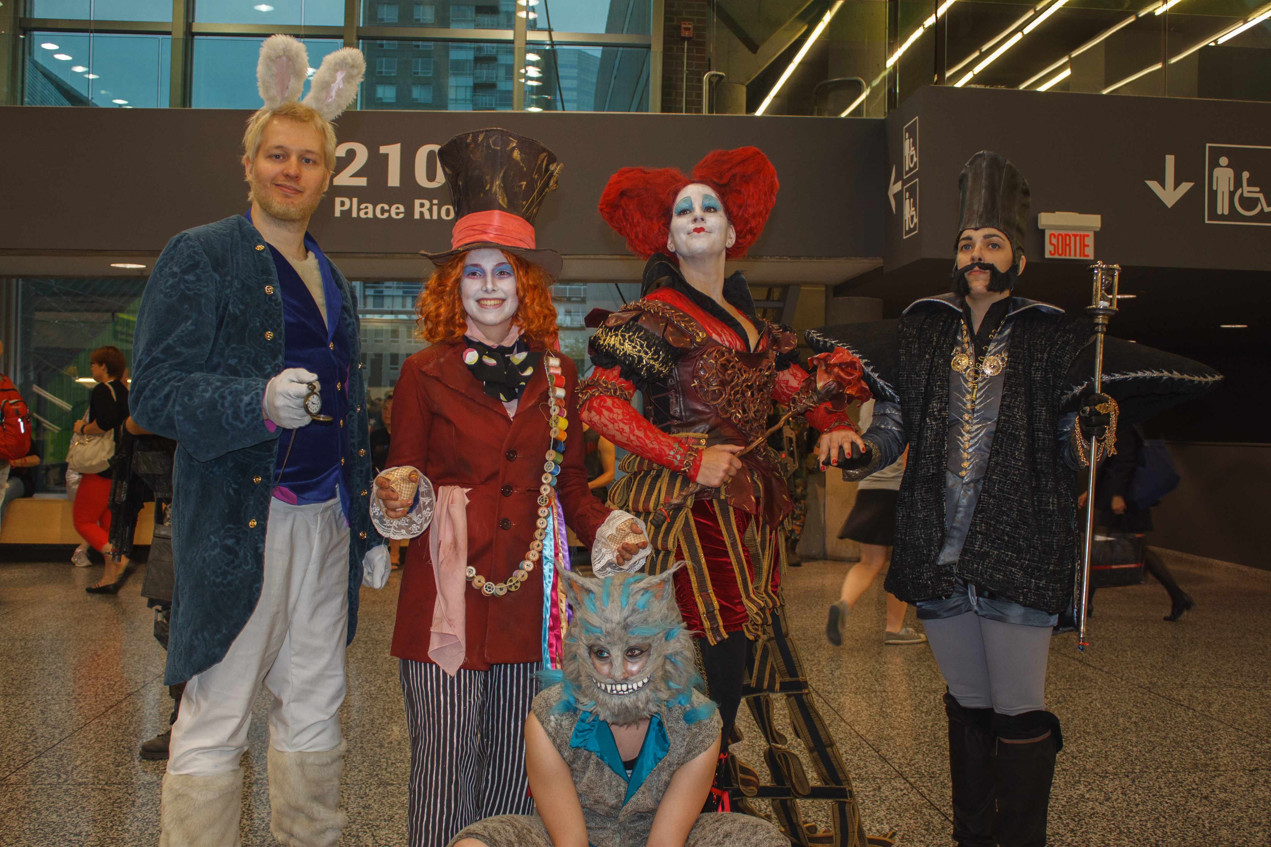 Cosplay on Saturday, day two, of the Montreal Comiccon 2016.